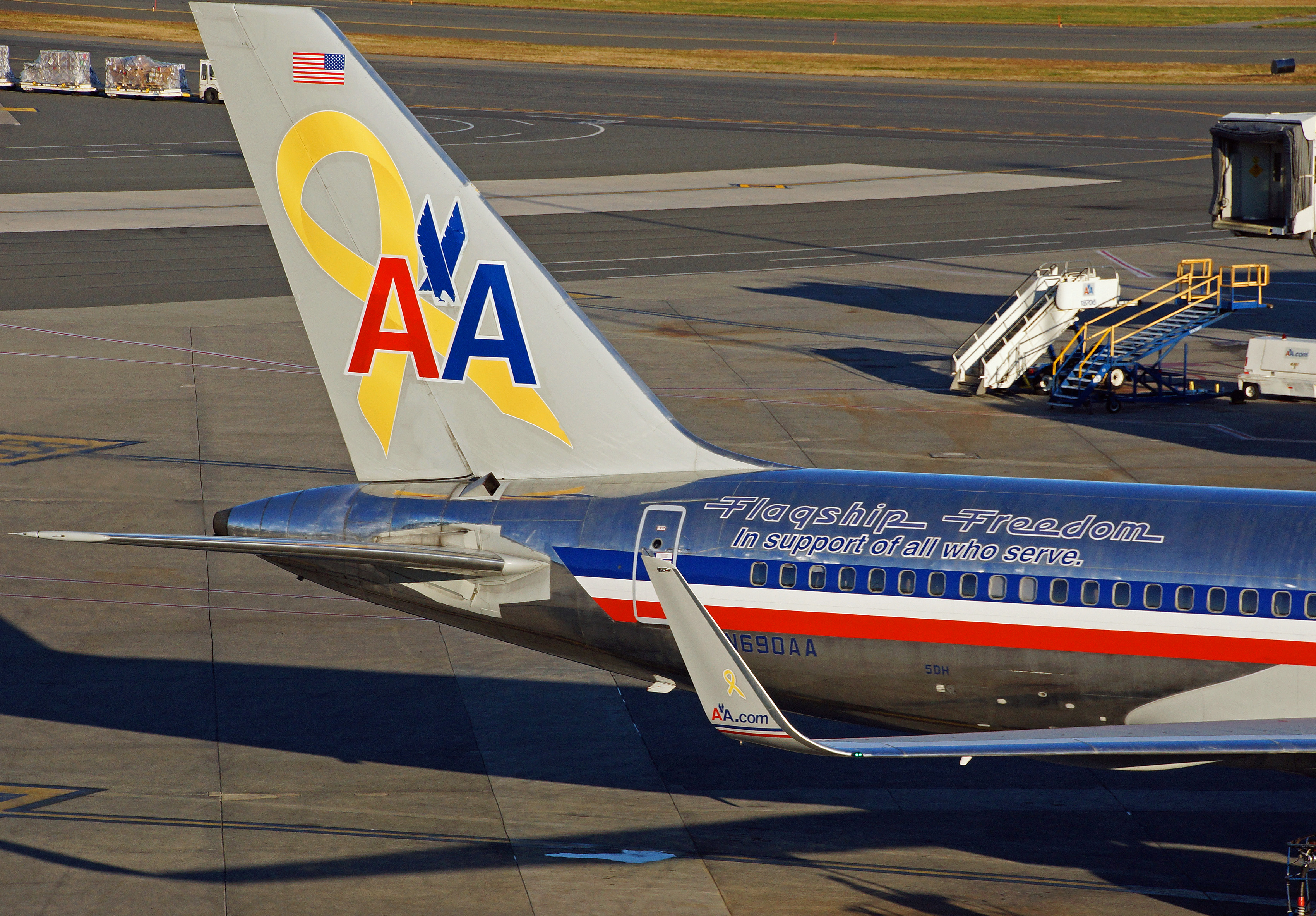 American Airlines tribute of support for all who serve in the United States military. Boeing 757 N690AA